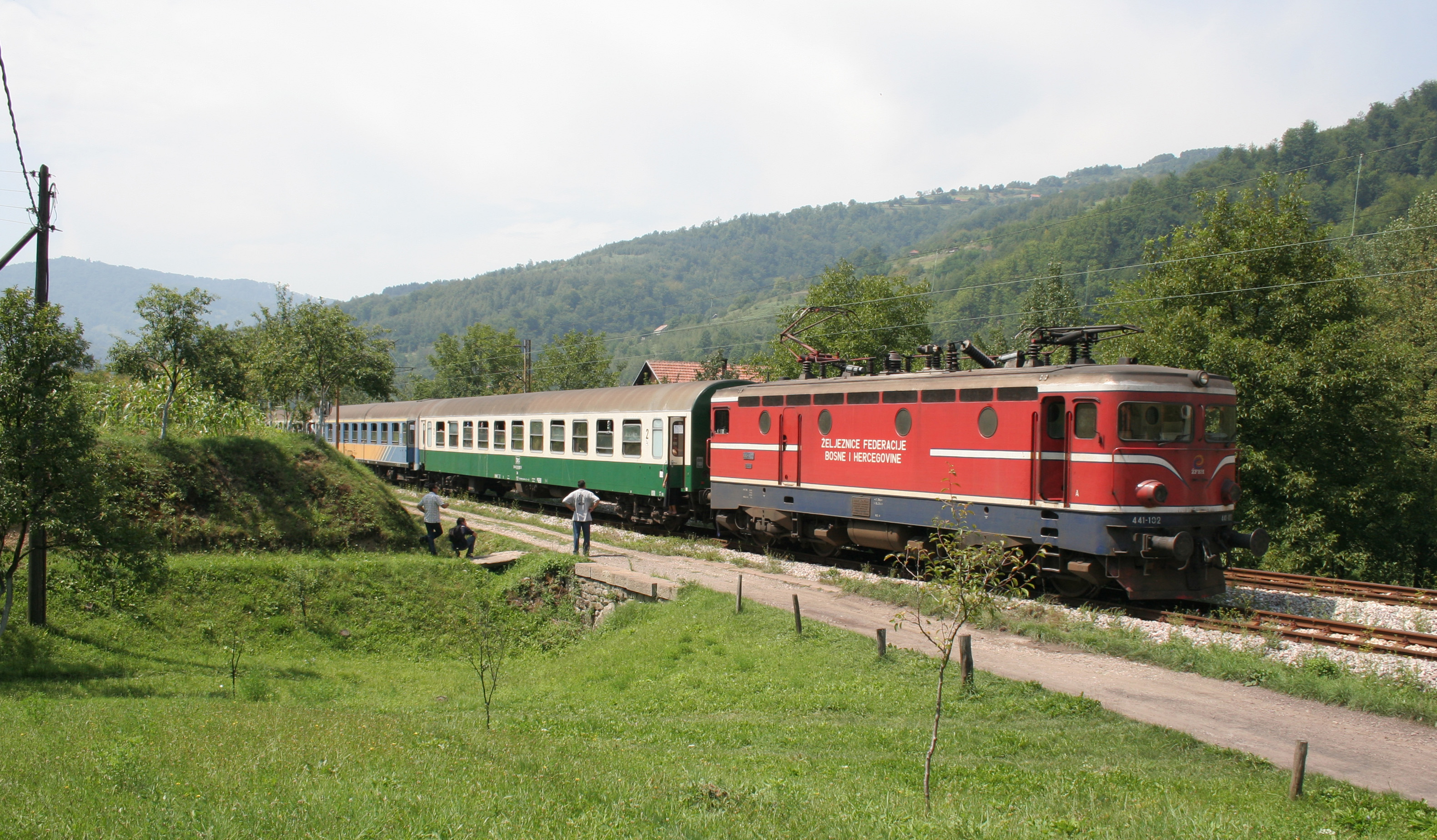 Train in Bosnia